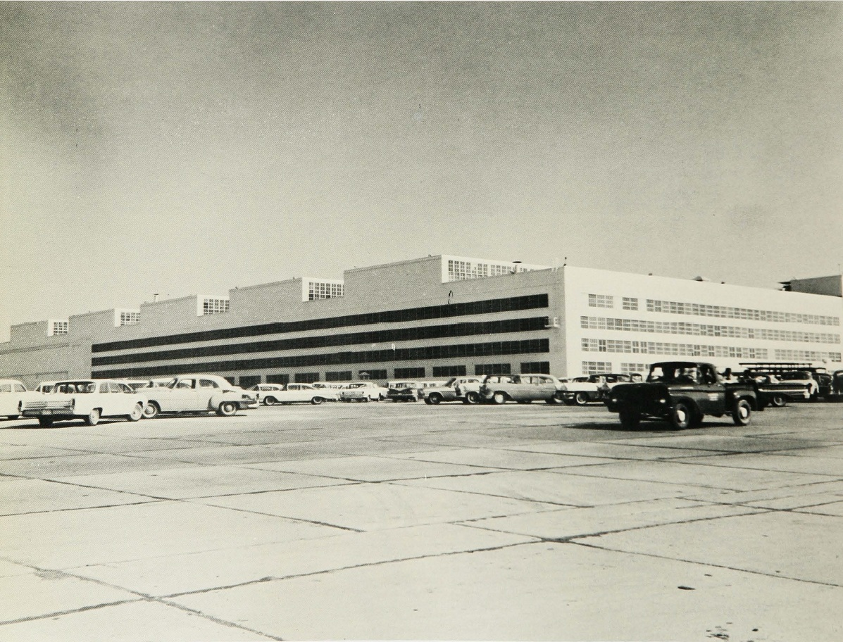 Fort Crook Bomber Assembly Plant for Glenn L. Martin Company, Offut Air Base